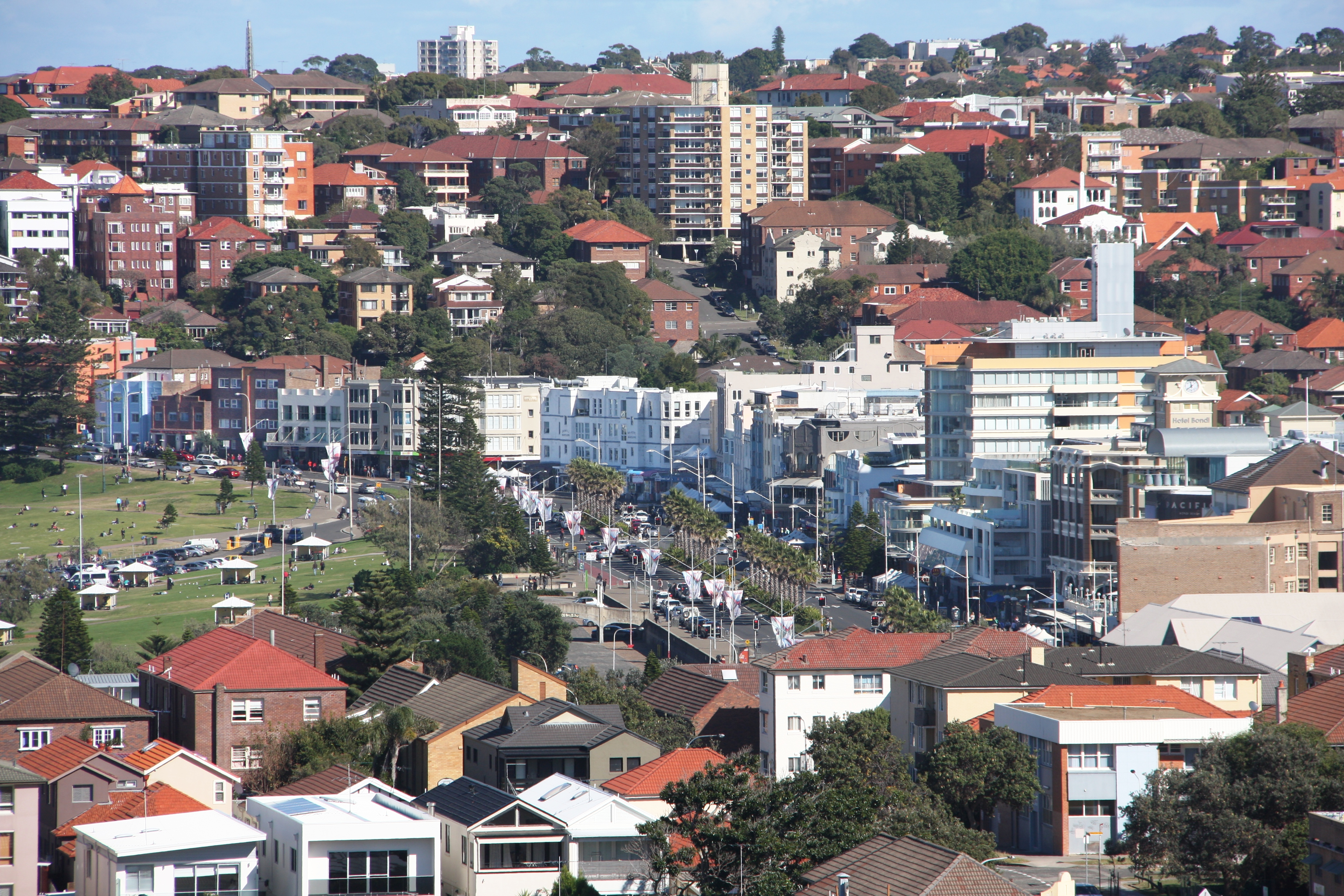 Bondi Beach, New South Wales, commercial are and residential